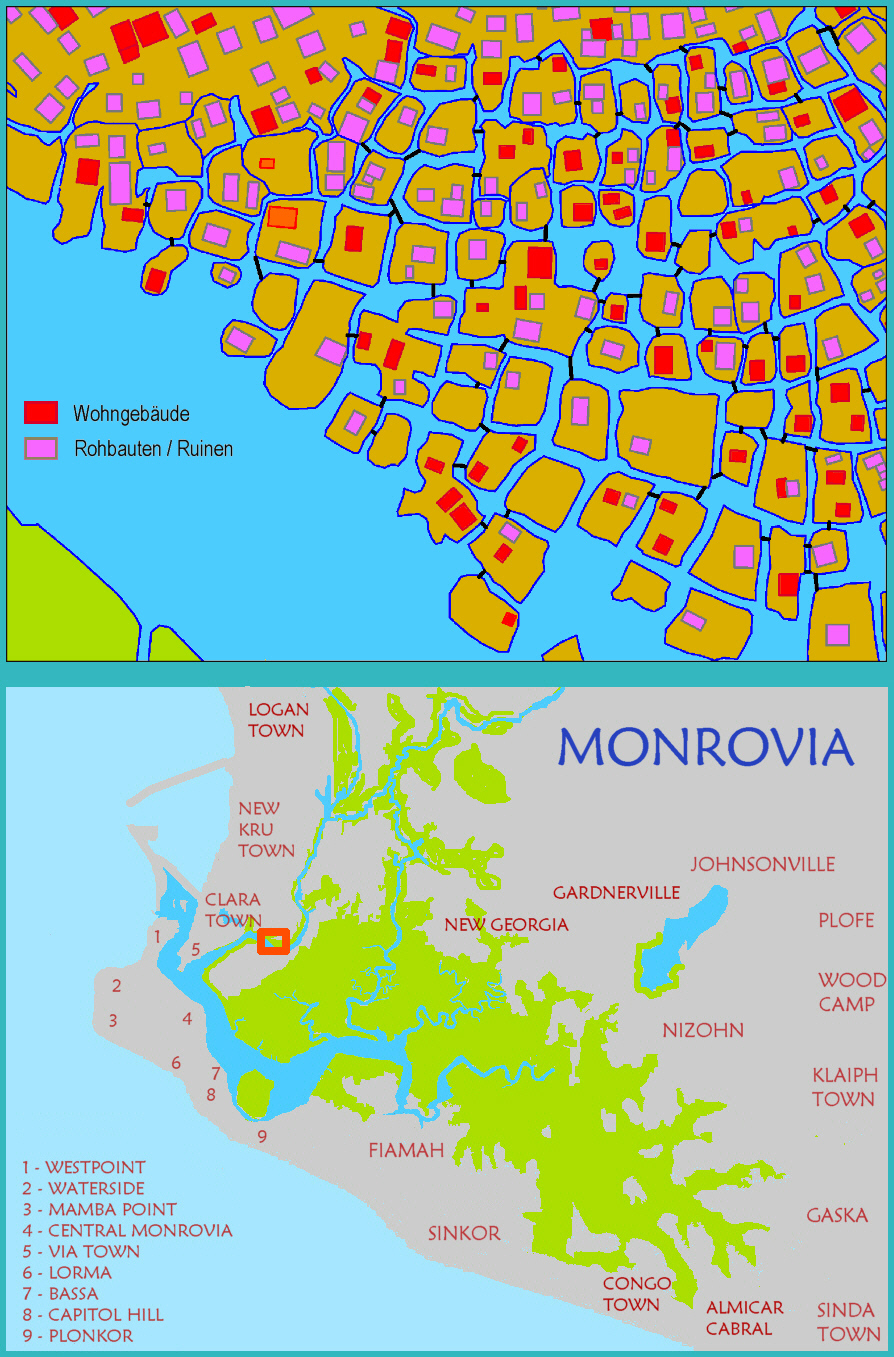 Location Clara Town on Busrod Island in Monrovia, Liberia. The map showes a new shanty town at the Mesurado River is under construction.